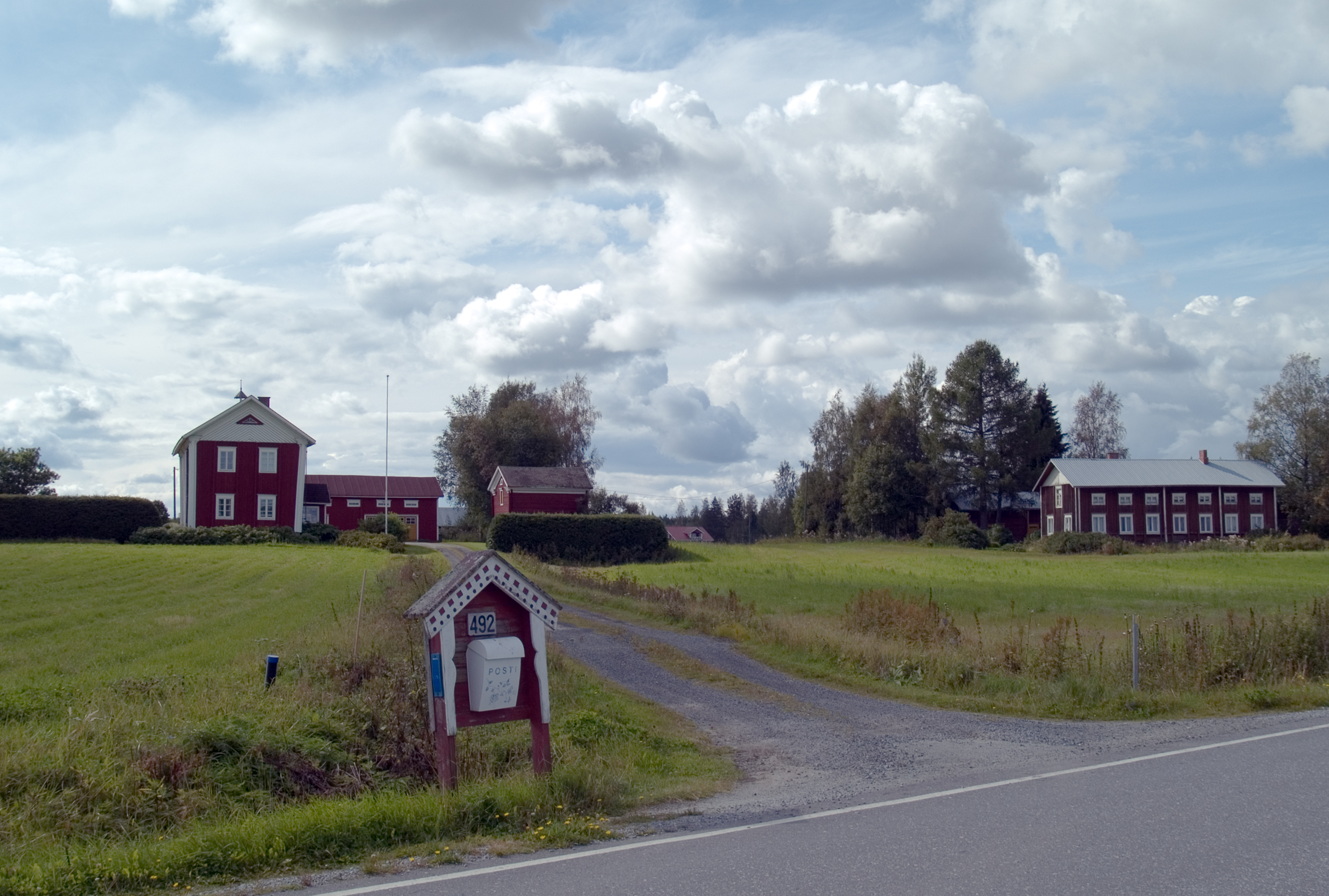 Länsiranta, Kuortane (west side of the Kuortane Lake), August 2012.